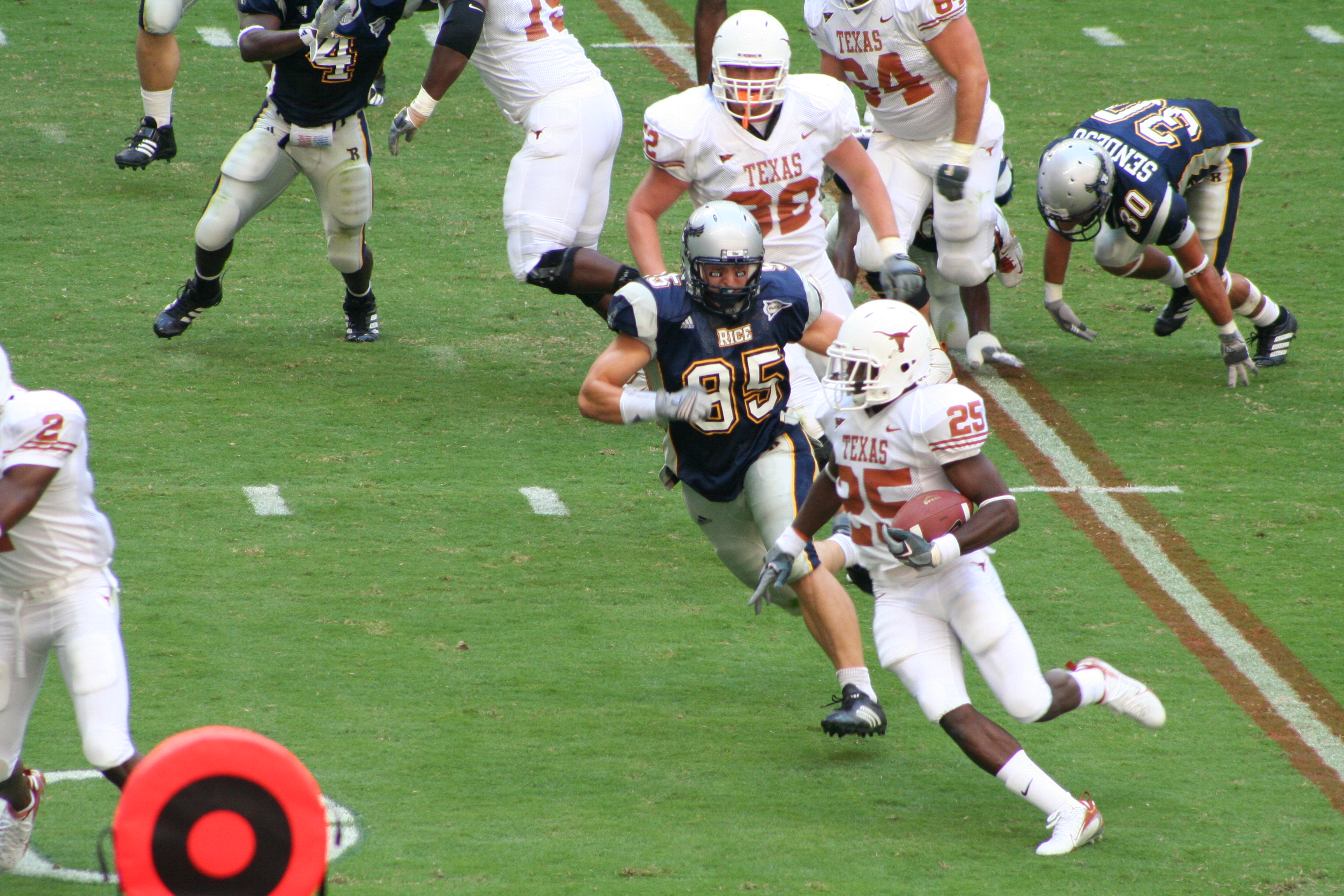 Tailback Jamaal Charles carries the ball in a College football game - The University of Texas Longhorns vs the Rice University Owls, 16 September 2006.